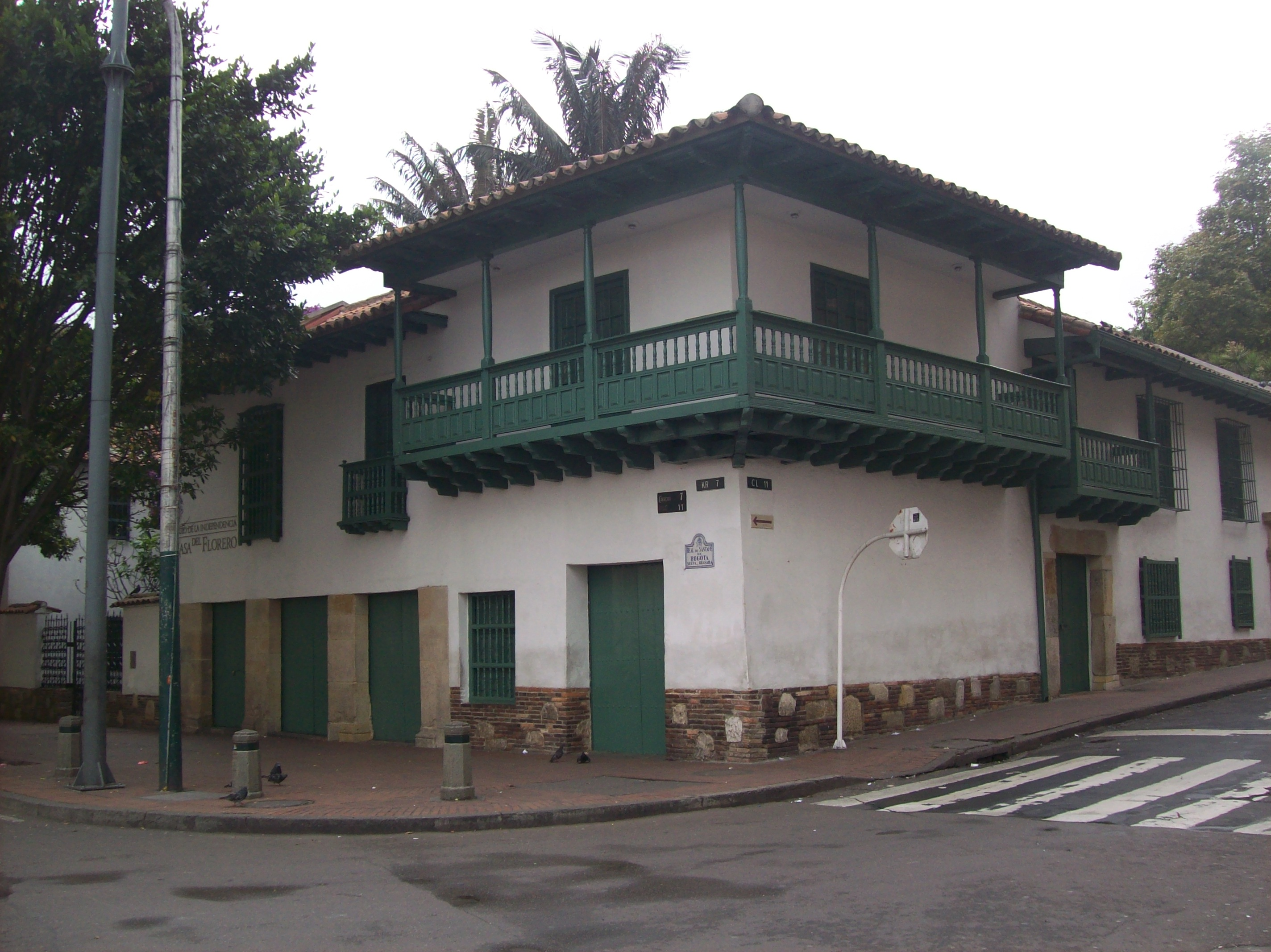 Museum of the Independence of Colombia (The Vase House in Bogotá).